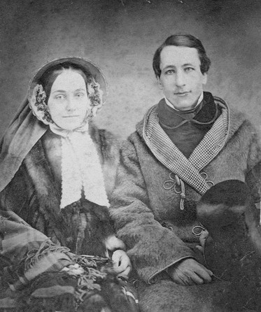 William Smith Clark (July 31, 1826 – March 9, 1886)